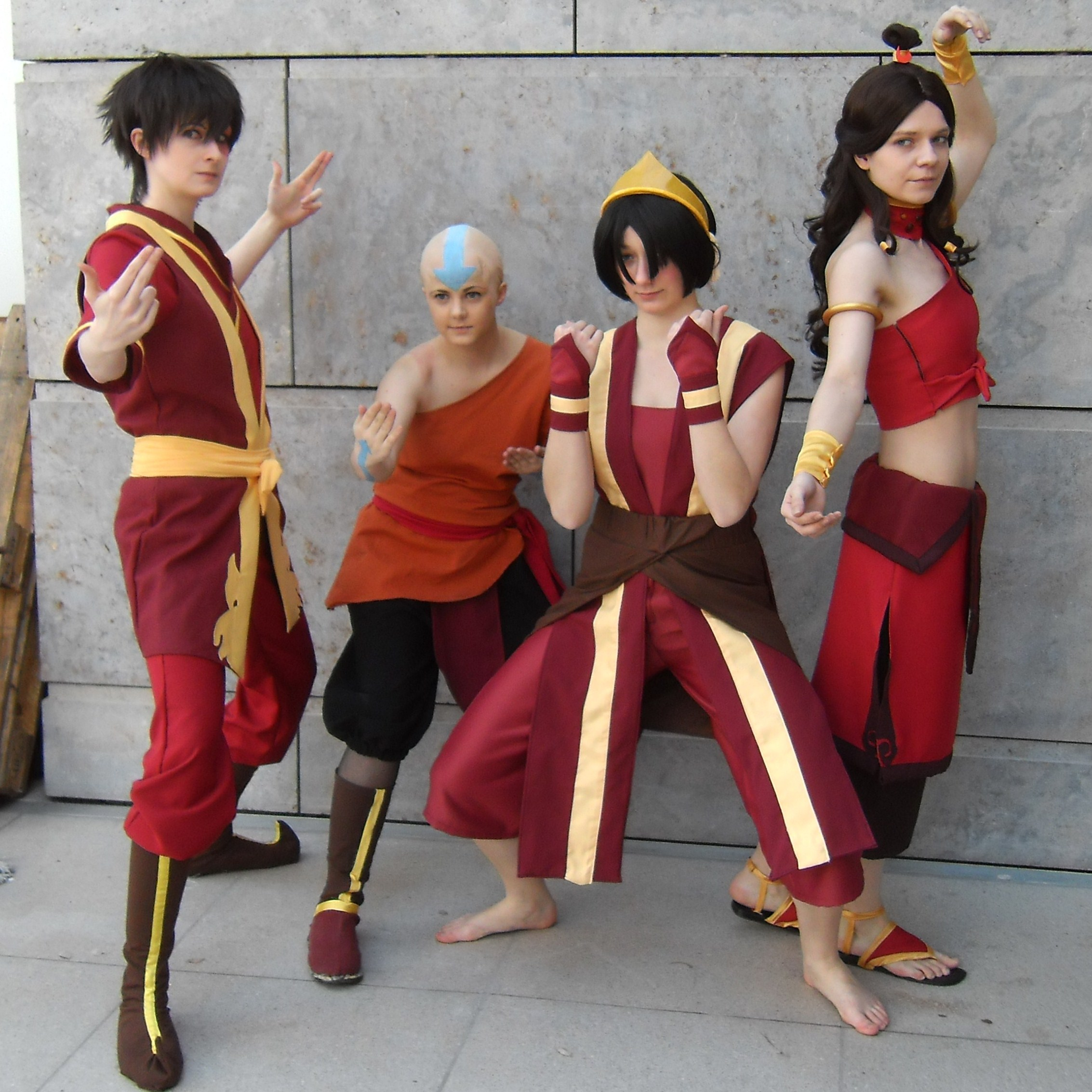 Cosplay at the Leipzig book fair on March, 19th 2011